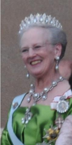 Shows Queen Margrethe II of Denmark at the wedding of Victoria, Crown Princess of Sweden, and Daniel Westling.